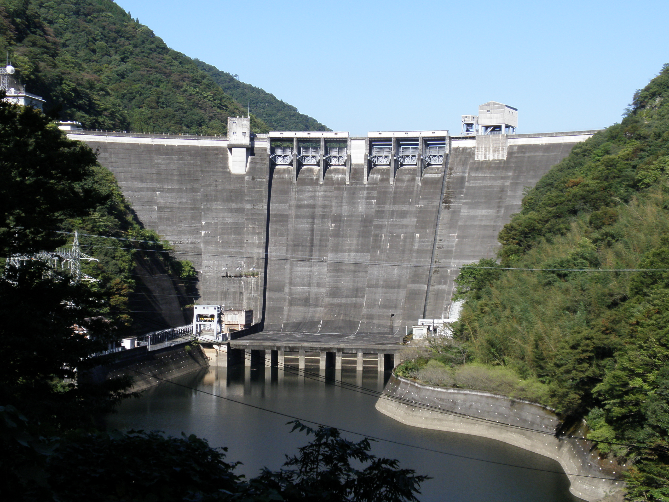 Shin-Nariwagawa Dam on the Nariwa river (tributary of Takahashi river), Takahashi, Okayama.